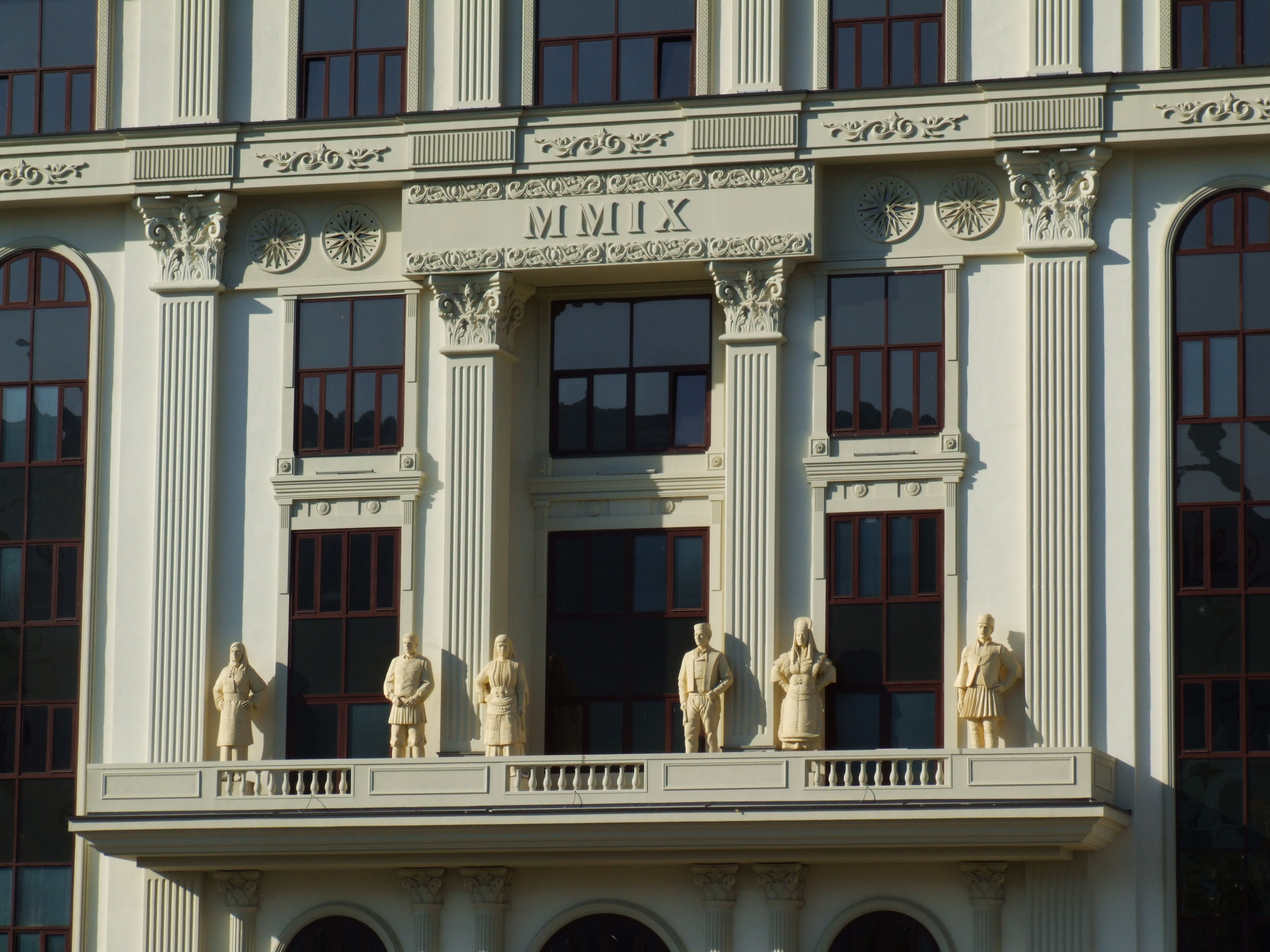 Skopje, Macedonia - Ministry of Foreign Affairs (detail)